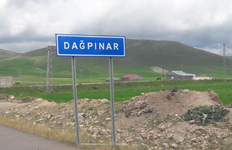 A view from Dağpınar.